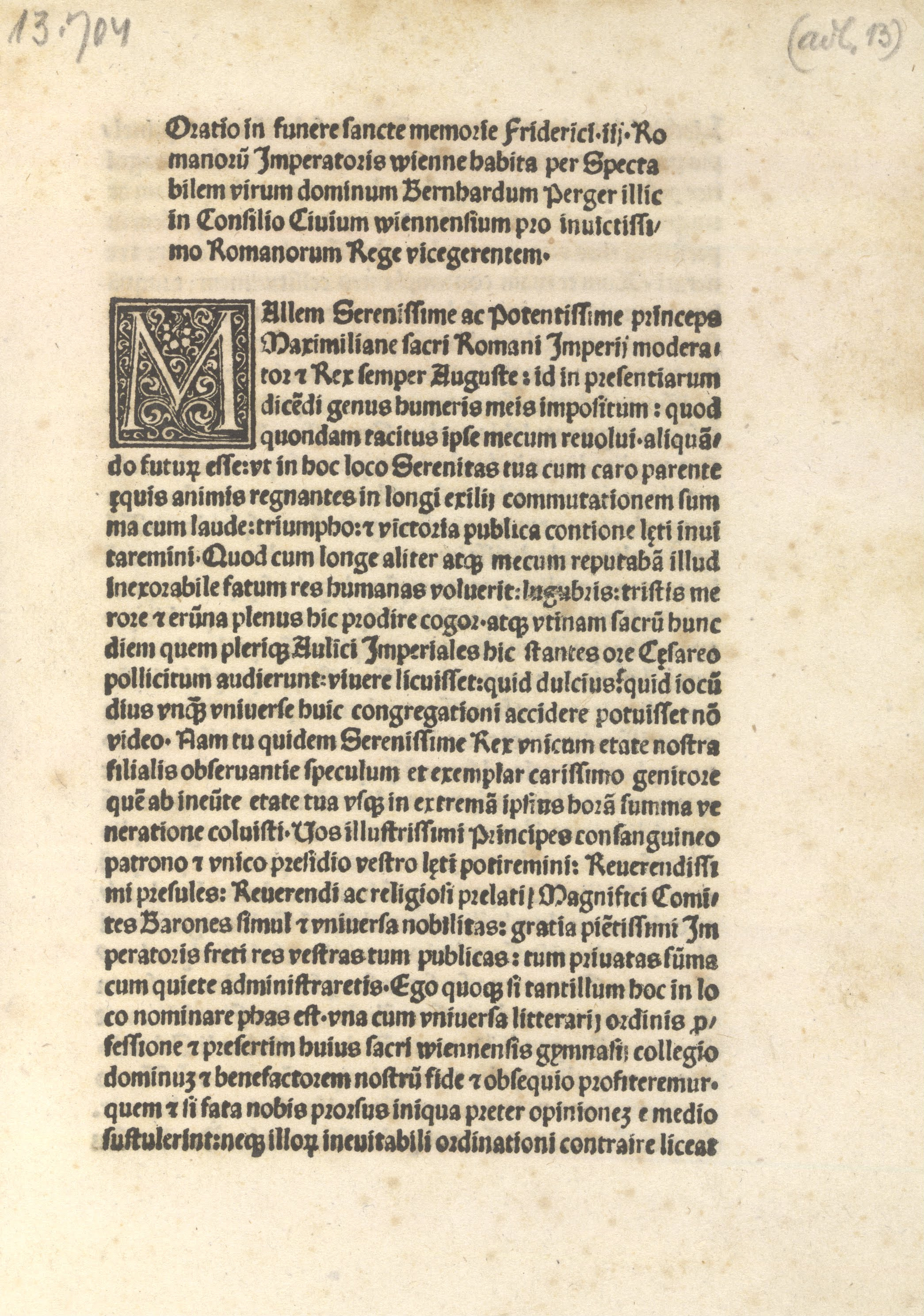 The necrology to the Austrian Emperor Frederic is the only incunabulum kept by NUK with the text by the Slovenian scholar, Bernard Perger, who was also the rector of the University of Vienna.